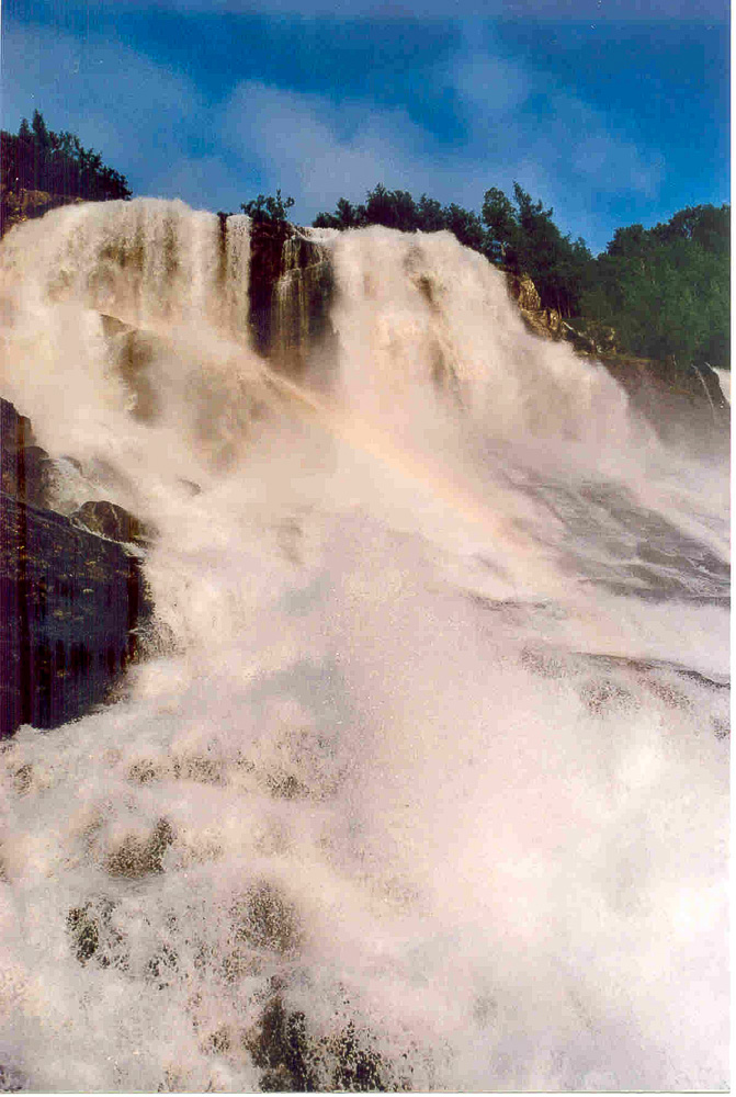 Furebergsfossen